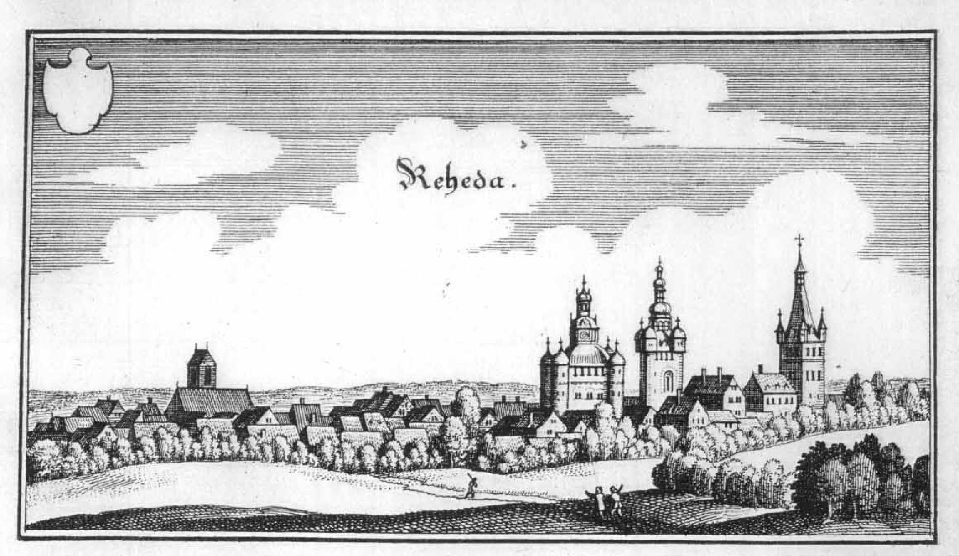 This is a scan of the historical document